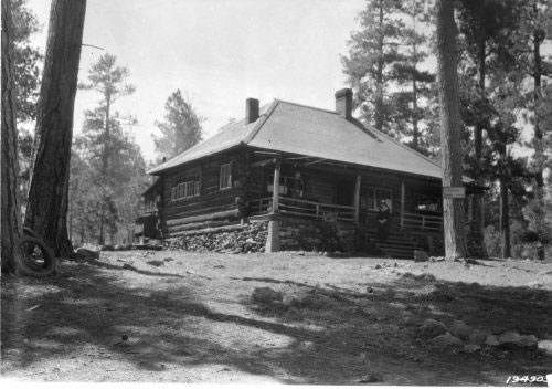 1924—Riverside Ranger Station at Greer, Arizona. When transportation was slow and difficult, the Forest Service needed many small Ranger Stations, like this one. Improvements of roads and rigs lead to consolidations of both Ranger Districts and National Forests. Photo by G. H. Cook FS #194905